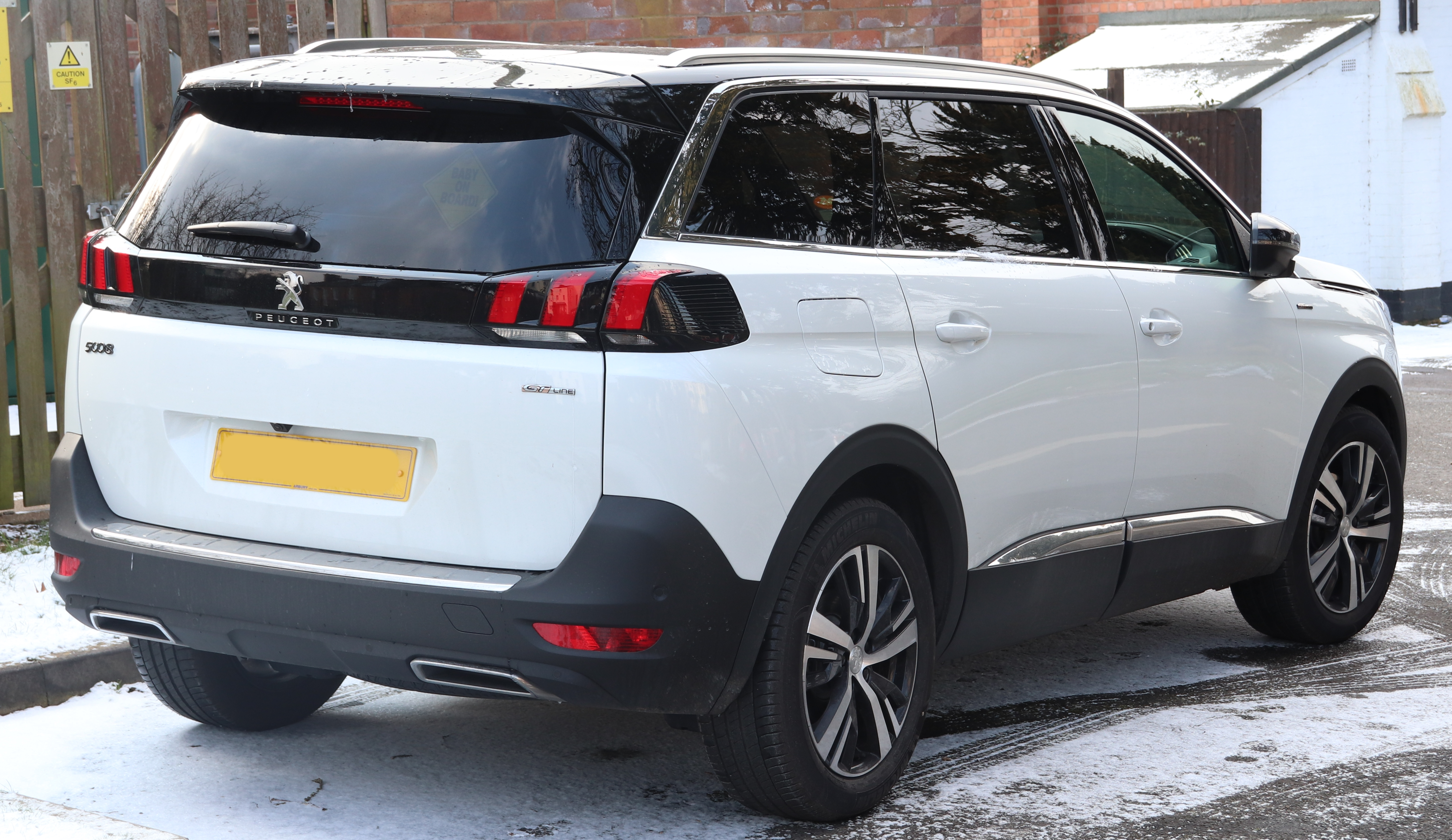 2017 Peugeot 5008 GT Line 1.2 Rear Taken in Leamington Spa